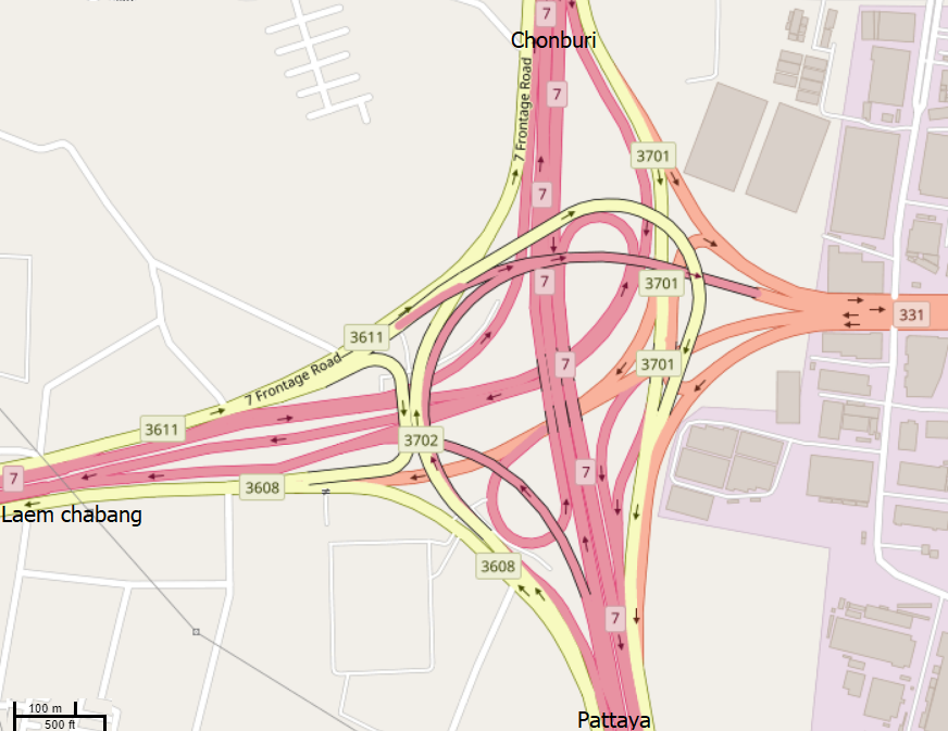 Nong Kham Interchange in Motorway 7 is important to minimize the traffic jams to and from the port of Laem Chabang. This map may be incomplete, and may contain errors. Don't rely solely on it for navigation.